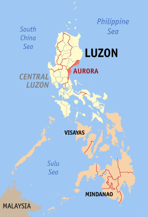 Map of the Philippines showing the location of Aurora